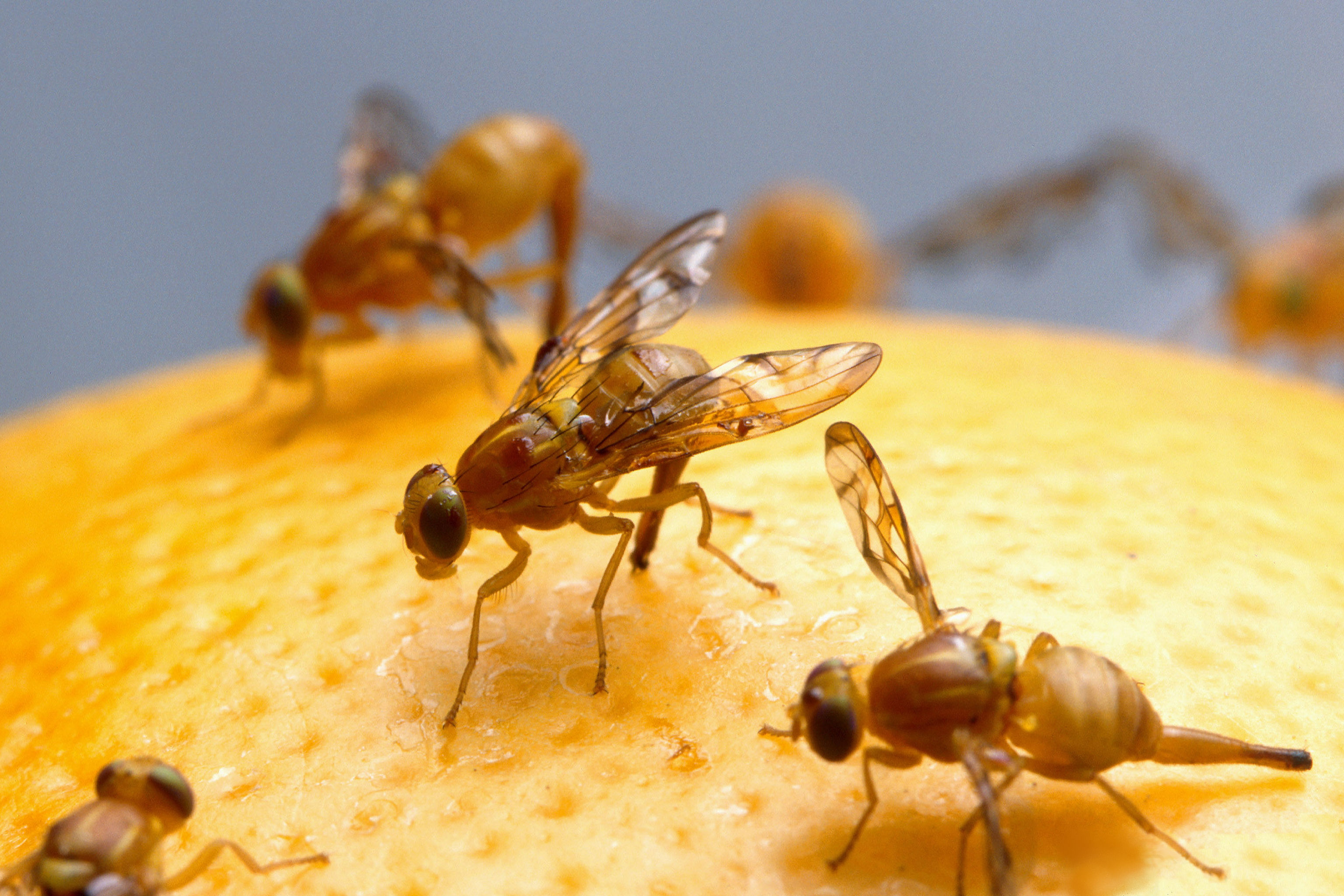 Anastrepha ludens Loew Common Name: Mexican fruit fly Photographer: Jack Dykinga, USDA Agricultural Research Service, United States Contact: USDA ARS Photo Unit, USDA Agricultural Research Service Descriptor: Adult(s) Description: In grapefruit as well as many other fruits, one female Mexican fruit fly can deposit large numbers of eggs: up to 40 eggs at a time, 100 or more a day, and about 2,000 over her life span Image taken in: United States